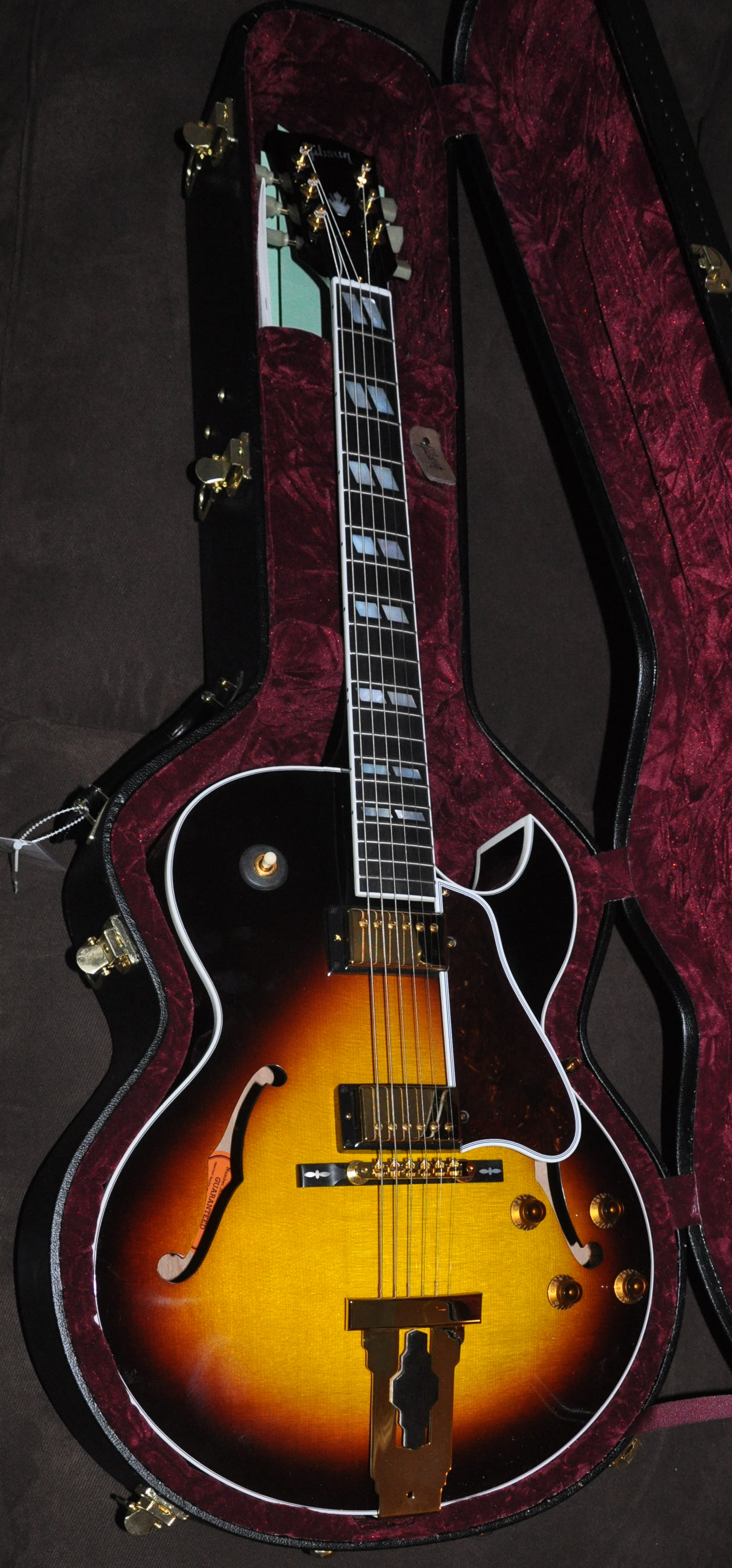 Gibson L-4 CES “my new toy. i love her so. ”